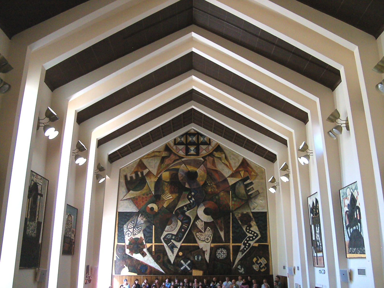 The Great Hall, University House, Australian National University. This shows some of the modern art works by Leonard French in-situ at the Great Hall, including "Regeneration" on the far wall and several from "The Journey" series on either side., Ref